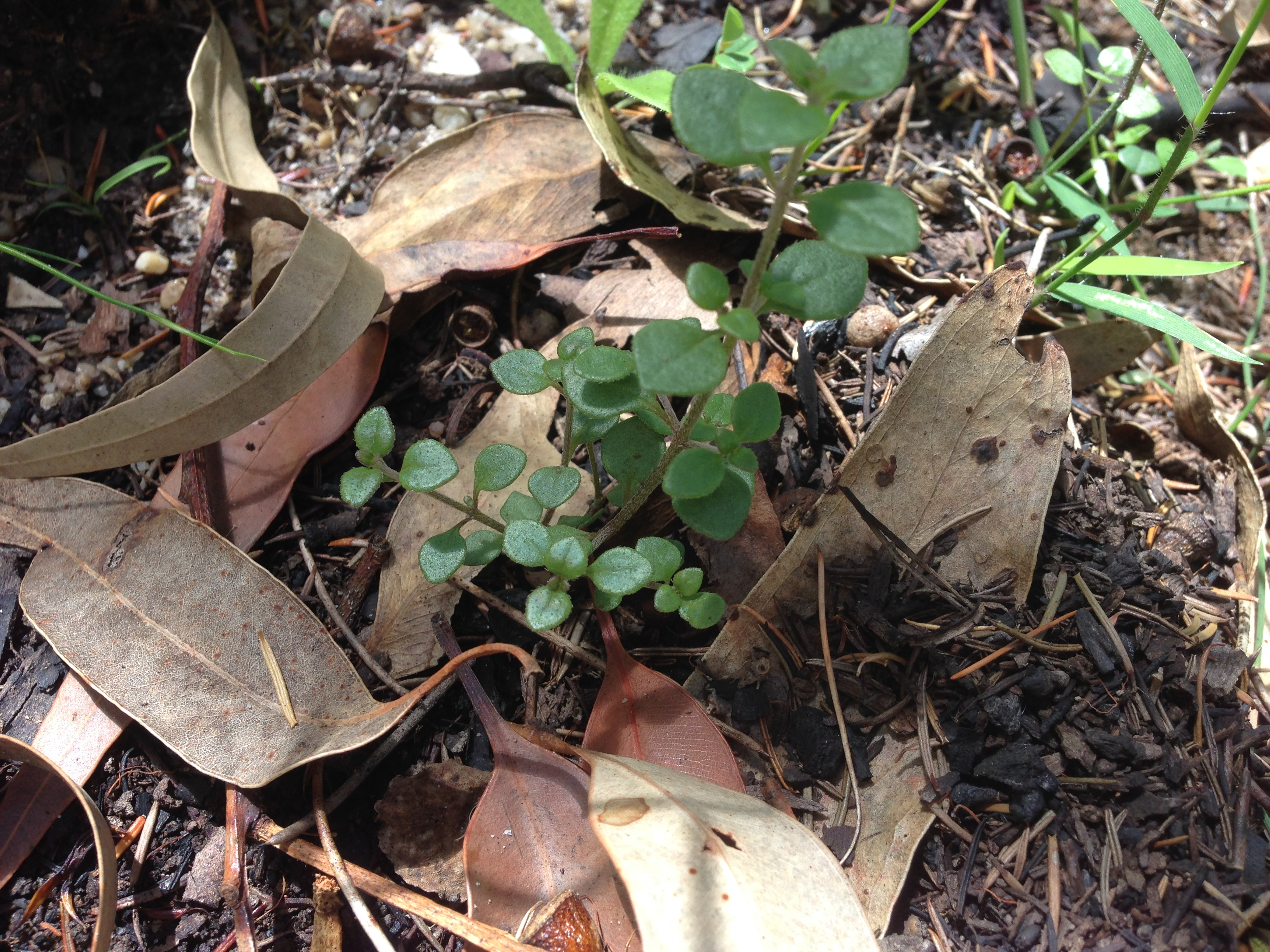 Somersby Mint Bush Seedling (Prostanthera junonis) seedling,12 weeks post-fire